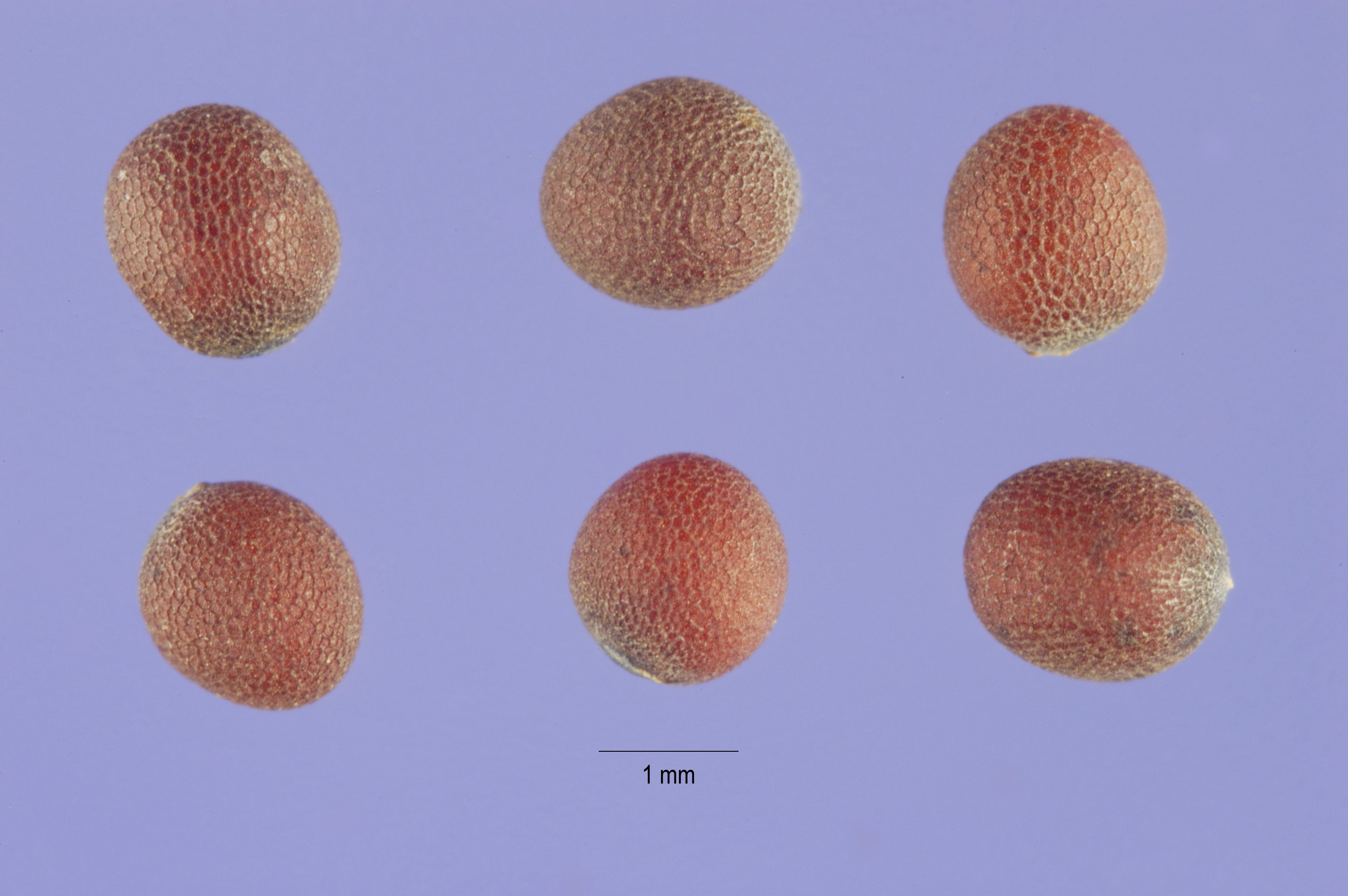 seeds of Brassica nigra from Steve Hurst, Provided by ARS Systematic Botany and Mycology Laboratory. India.